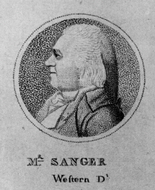 Members, House of Assembly Attribution Isaac Hutton, c. 1767 - 1855 Sitter Peter Cantine, 1750 - 1850? Peter Silvester, 1734 - 1808 James G. Graham, 1750 - 1850? William Thompson, born mid-18th Century Jedediah Sanger, 1750 - 1850? Seth Phelps, 1750 - 1850? Date c. 1798 Type Print Medium Stipple engraving on paper Dimensions Image: 13.3 x 17.7cm (5 1/4 x 6 15/16") Sheet: 24.8 x 20cm (9 3/4 x 7 7/8") Credit Line National Portrait Gallery, Smithsonian Institution Object number S/NPG.76.26.E Data Source National Portrait Gallery